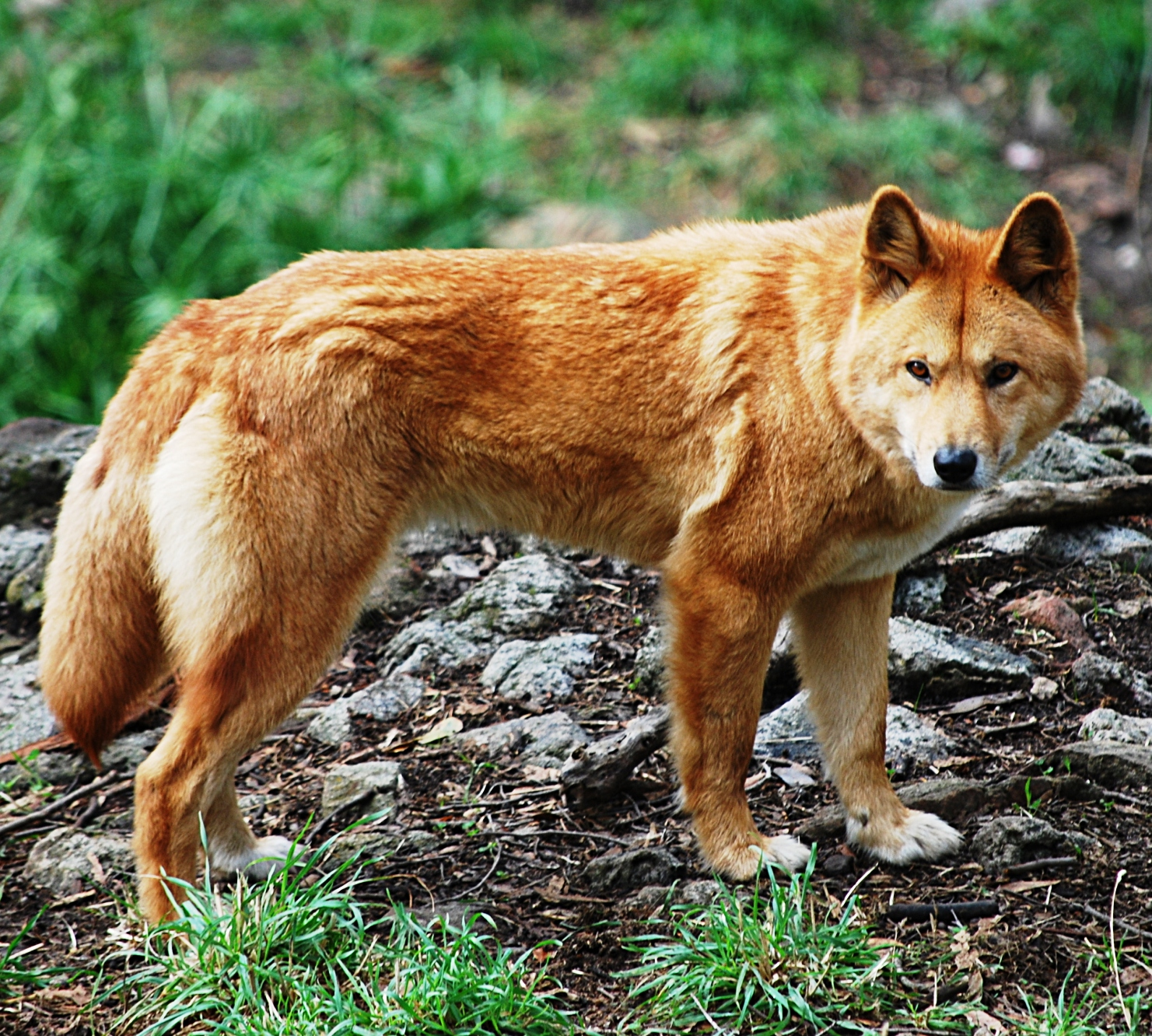 Dingo (Canis lupus dingo) at Cleland Wildlife Park, South Australia.